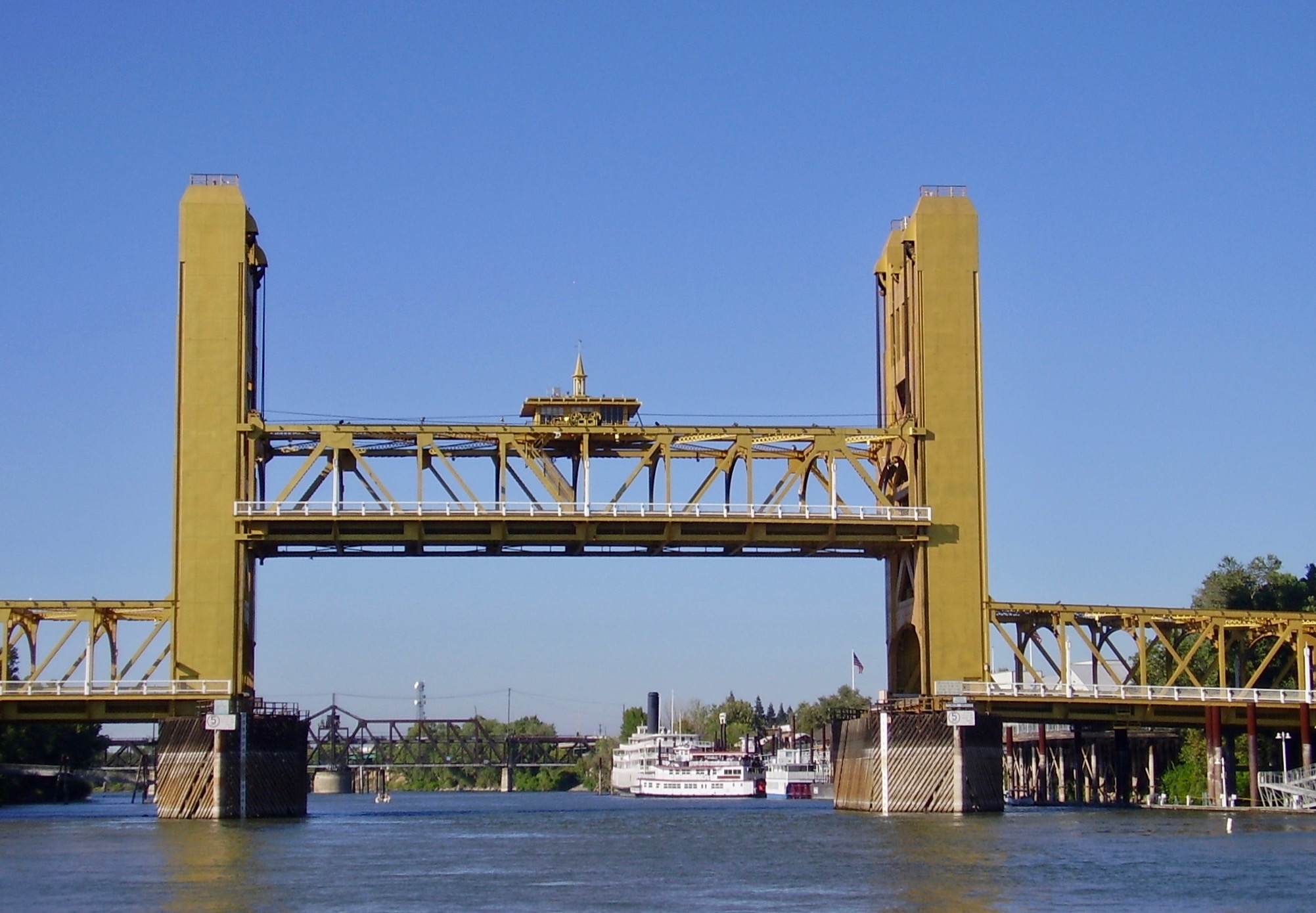 The Sacramento Tower Bridge in the raised position